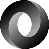 The graphical logo for JSON, an open standard by Douglas Crockford.